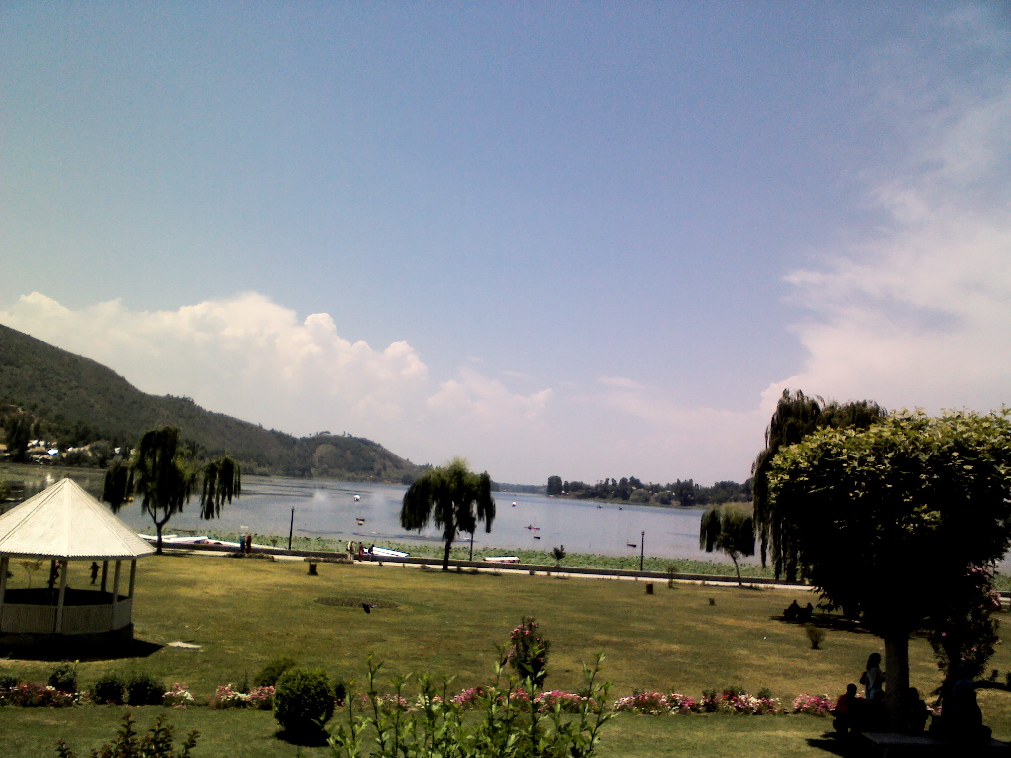 Manasbal Lake in Kashmir